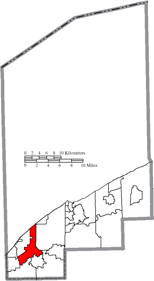 Map of the municipal and township boundaries of Lake County, Ohio, United States, as of the 2000 census, with the location of the city of Willoughby highlighted. Township borders are shown only in unincorporated areas in order to differentiate incorporated and unincorporated areas more clearly.